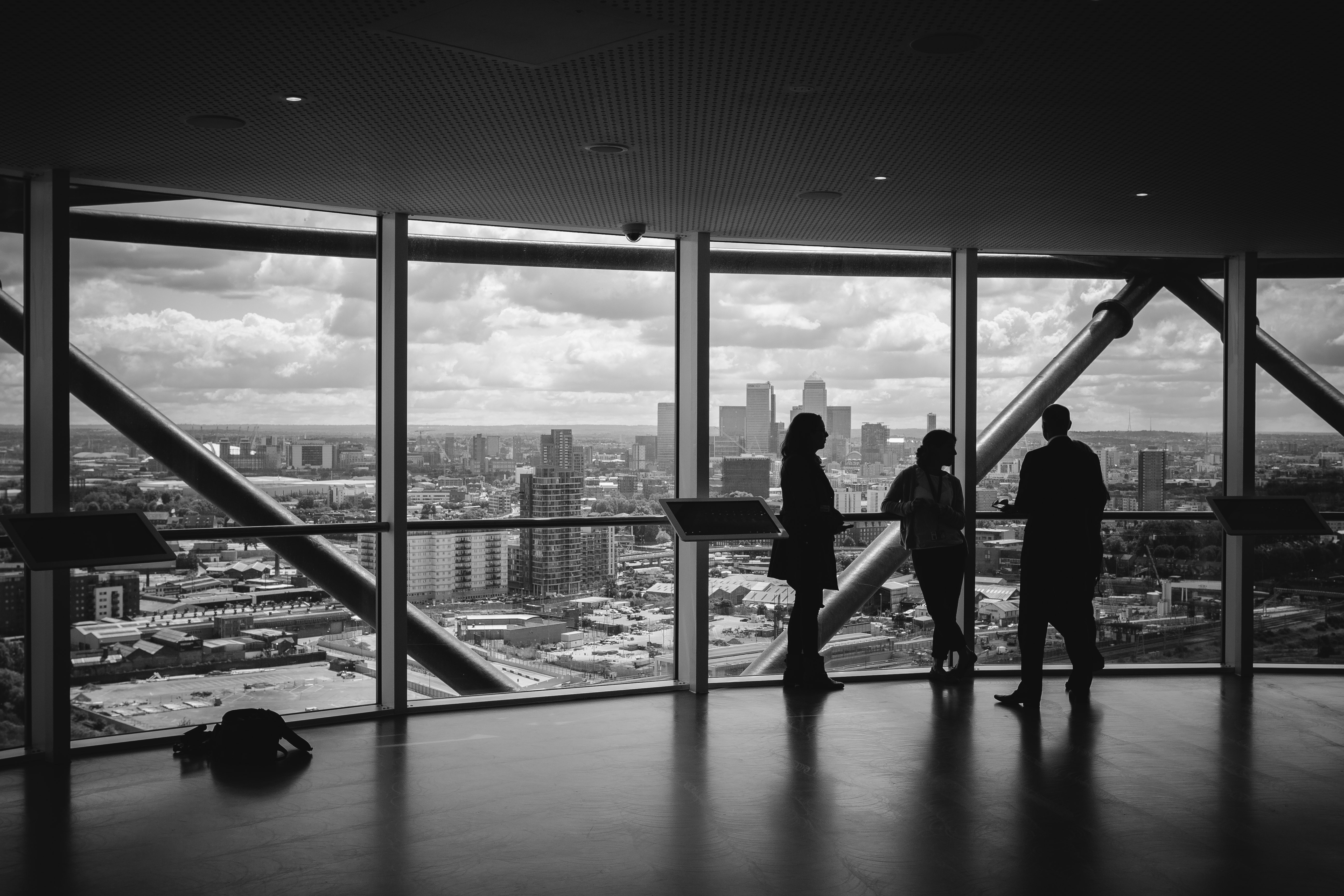 Backlit meeting in front of the view from the top of the ArcelorMittal Orbit tower, looking towards Canary Wharf.